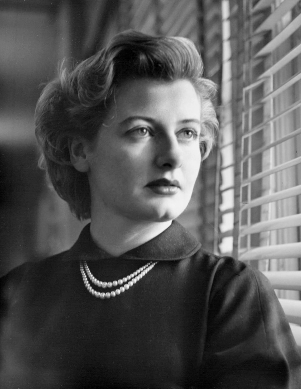 Photo of Constance Ford from the early daytime drama Woman With a Past.